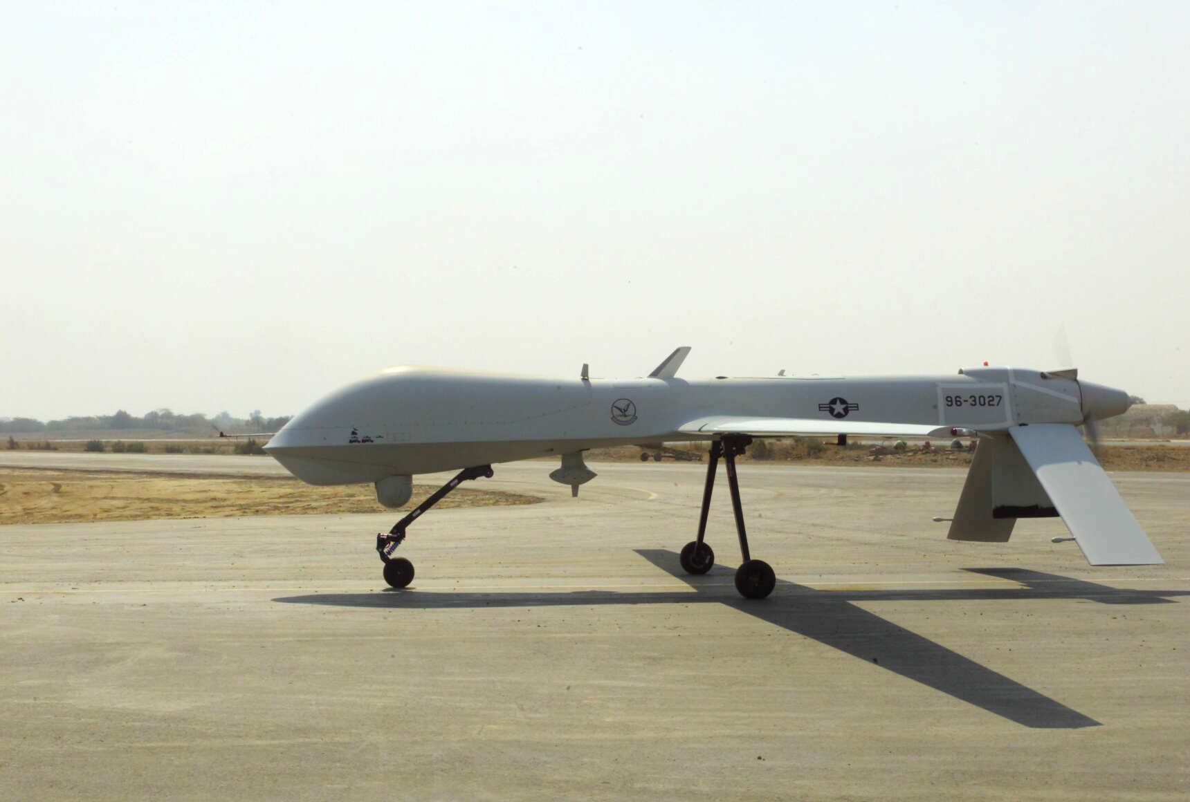 020214-M-7370C-034 Operation Enduring Freedom (Feb. 14, 2002) -- A RQ1L “Predator” Unmanned Aerial Vehicle (UAV) from the 57th Wing Operations Group makes its way back to the hanger at a forward operating base after returning from a flight over Afghanistan. U.S. Marine Corps photo by Chief Warrant Officer William D. Crow. (RELEASED)